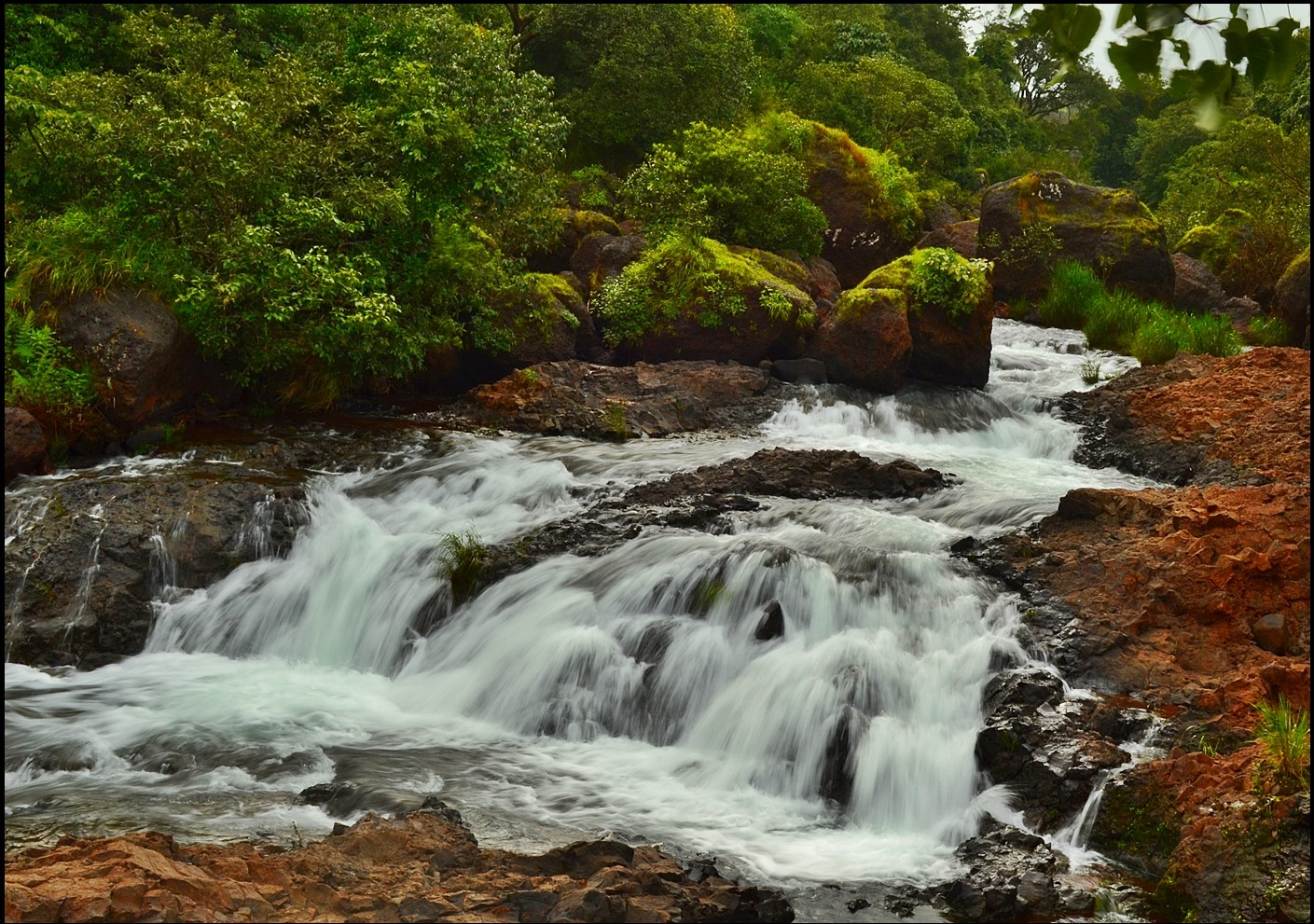 A waterfall at Kaas